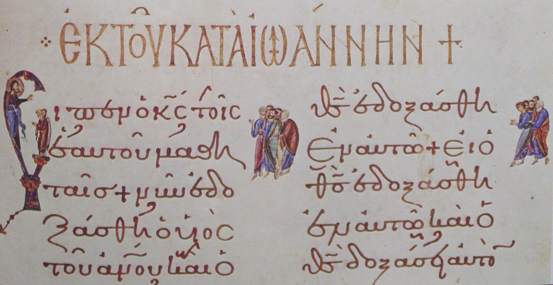 From Gospel lectionary Mt. Athos Dionys. Cod. 587